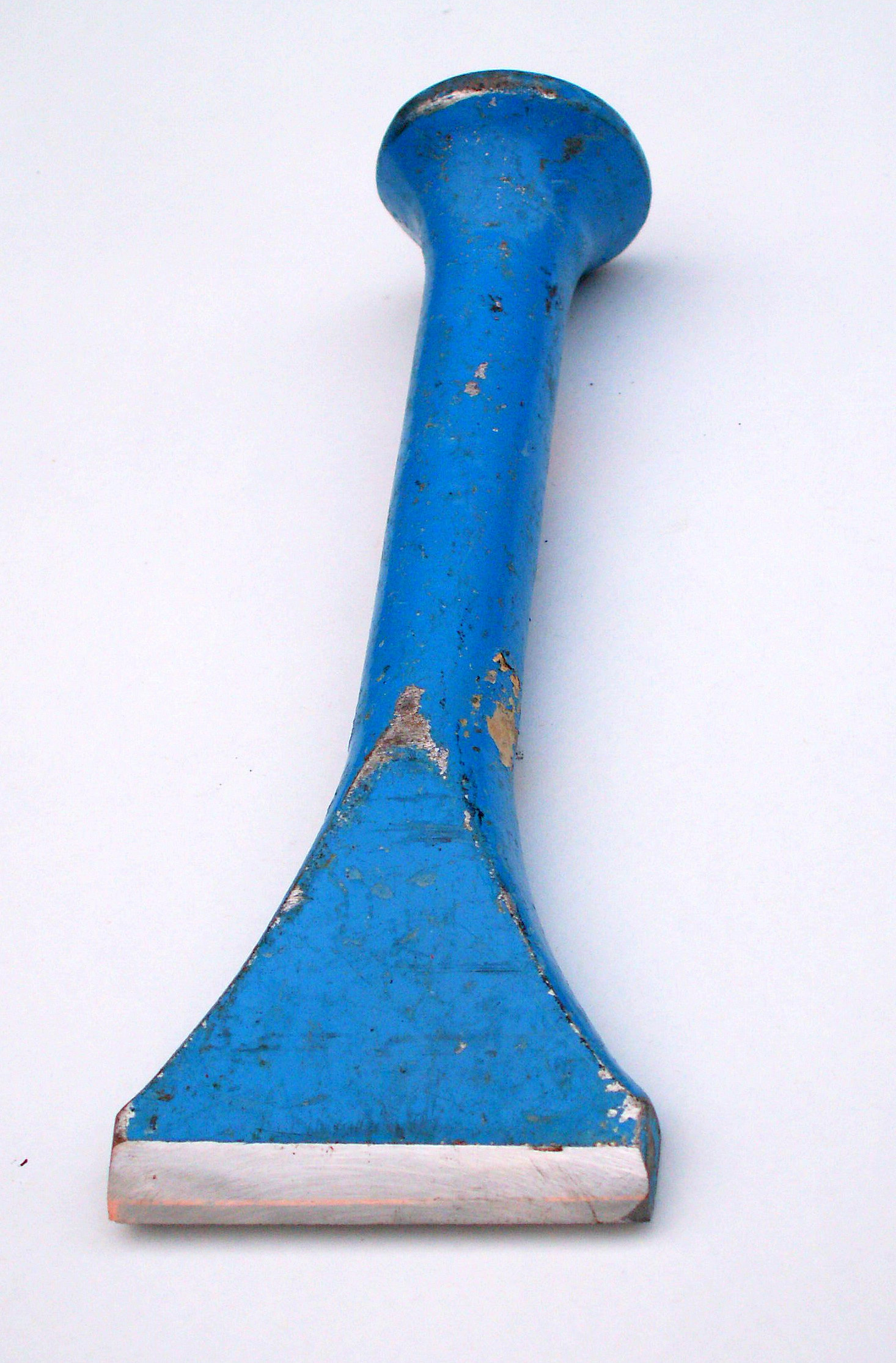 a large stone chisel